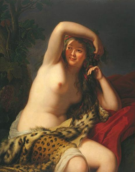 The picture depicts a maenad, follower of the god Dionysos (identified with the Roman god Bacchus) in the Greco-Roman mythology.